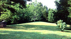 View of the Boyd Mounds Site, located at mile 106.9 on the Natchez Trace Parkway east of Ridgeland in Madison County, Mississippi, United States. The site is listed on the National Register of Historic Places.